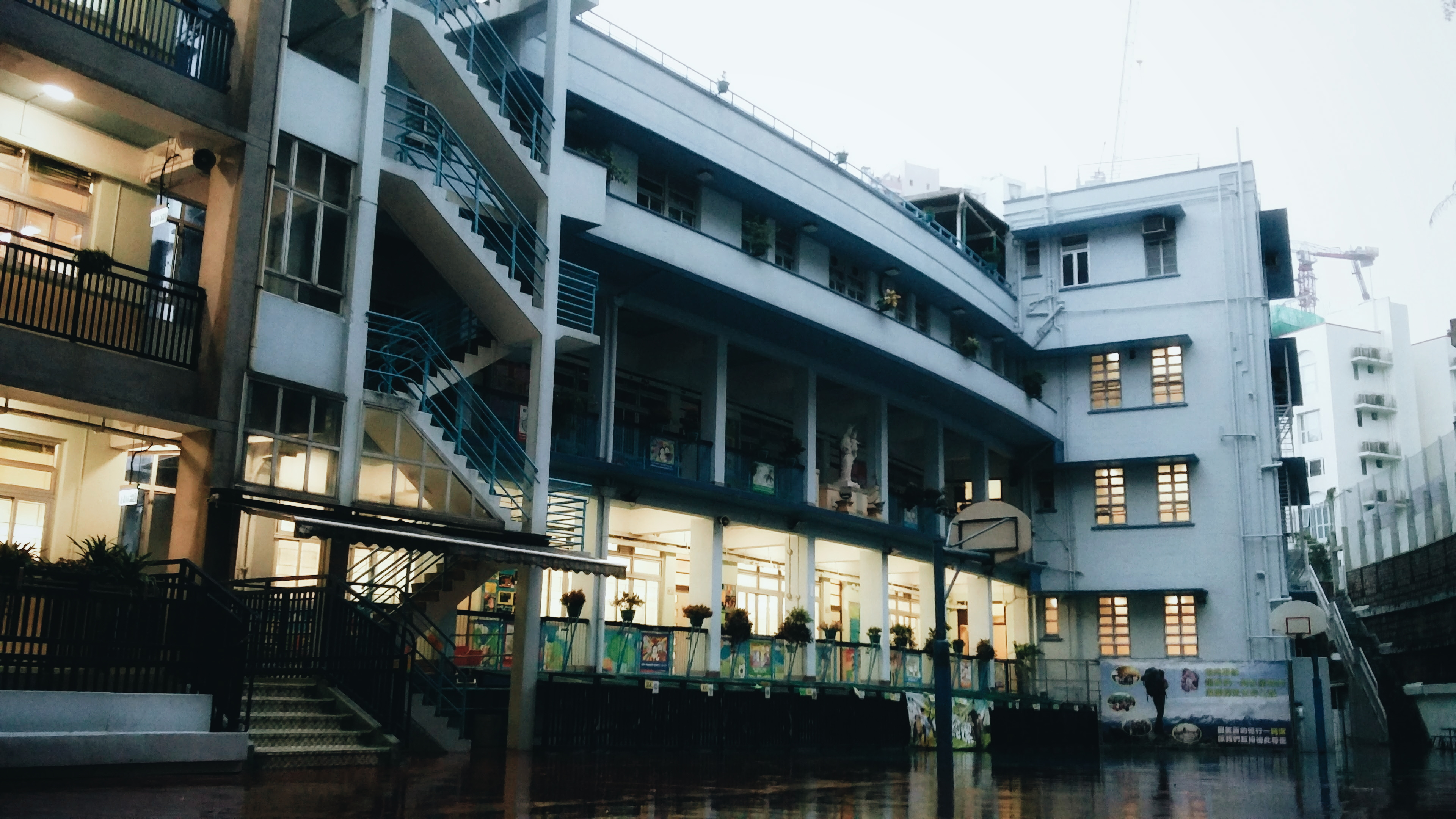 The inside of the campus on rainy day.